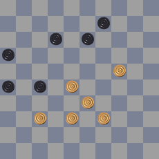 International draughts, Coup Weiss.